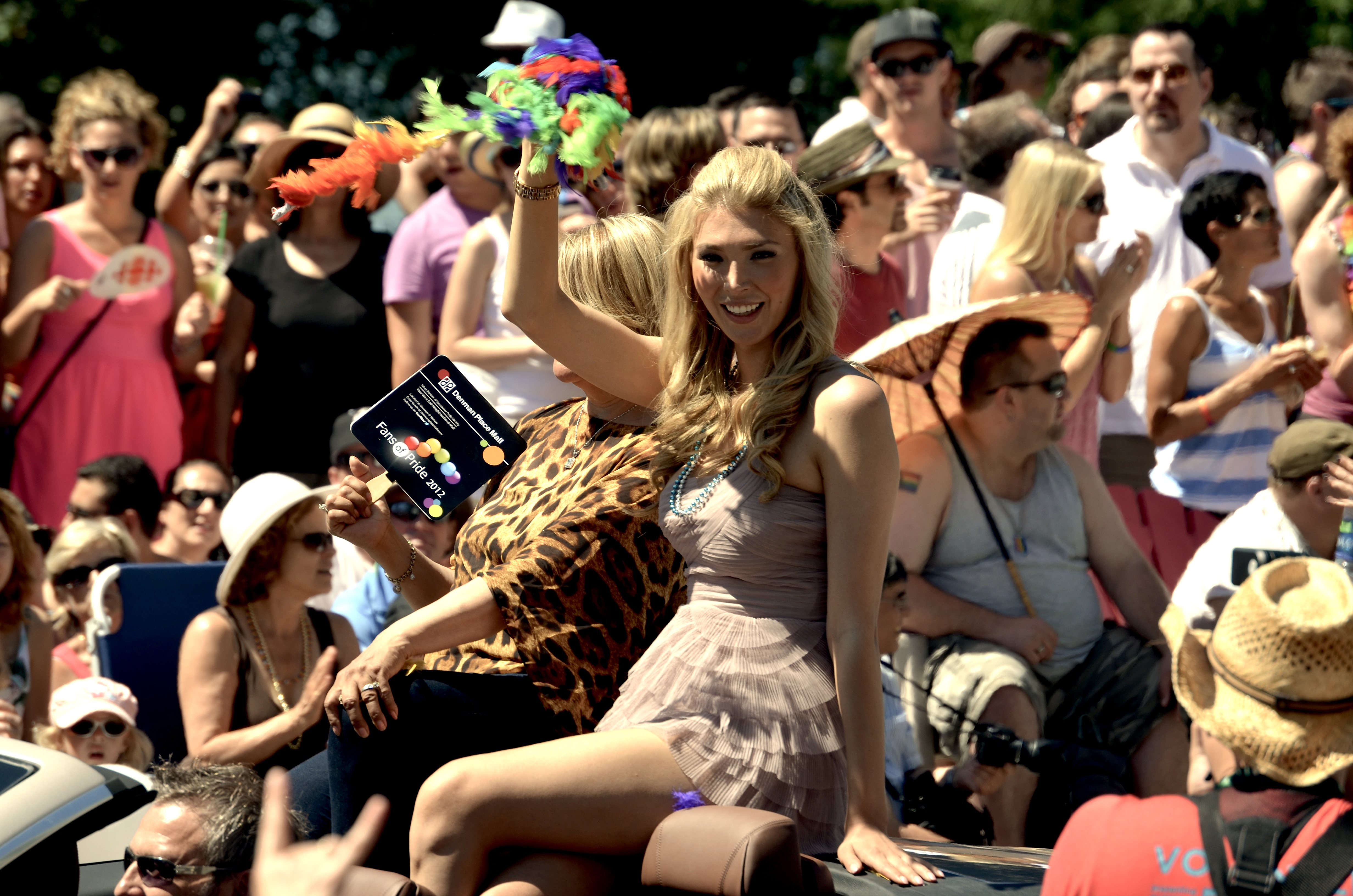 Jenna Talackova as the co-grand marshal of the 2012 Vancouver Pride Parade